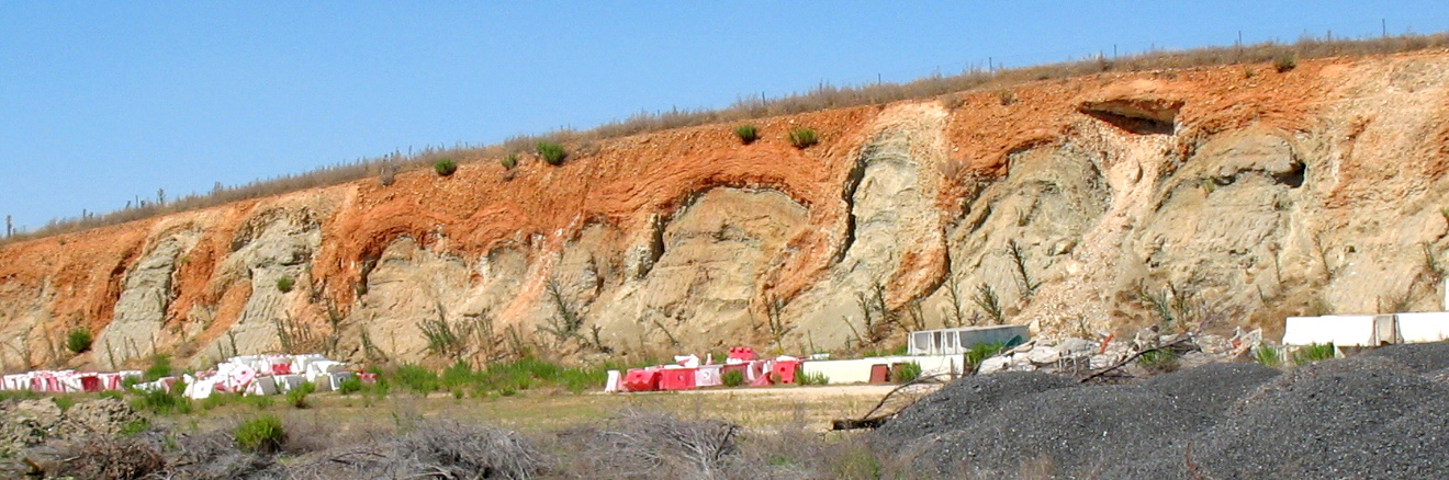 Dissolution of Cenozoic gypsum and filling by the overlying Quaternary gravels. Service area of the R-3 road in Arganda del Rey, Madrid, Spain.